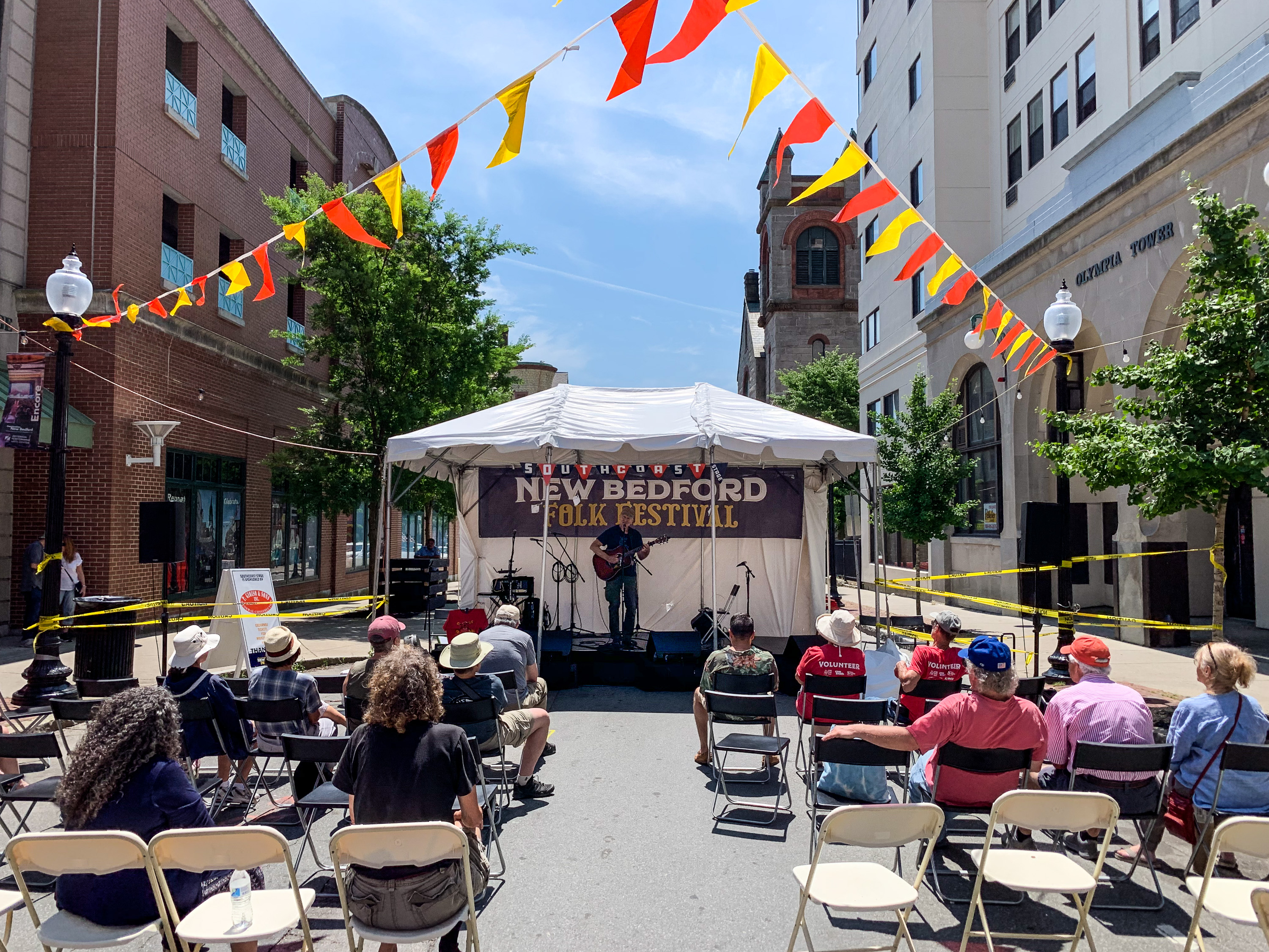 A stage on Purchase Street, 2019 New Bedford Folk Festival.